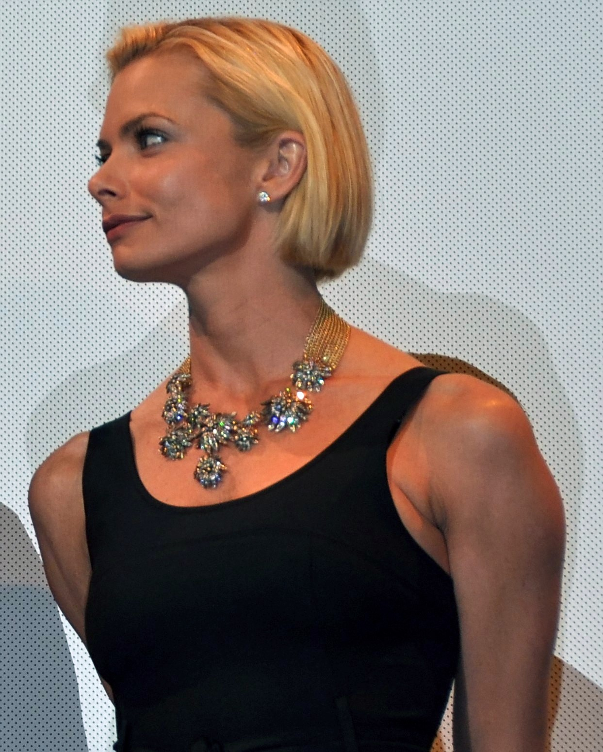 Jaime Pressly at the Austin, TX premiere of I Love You, Man